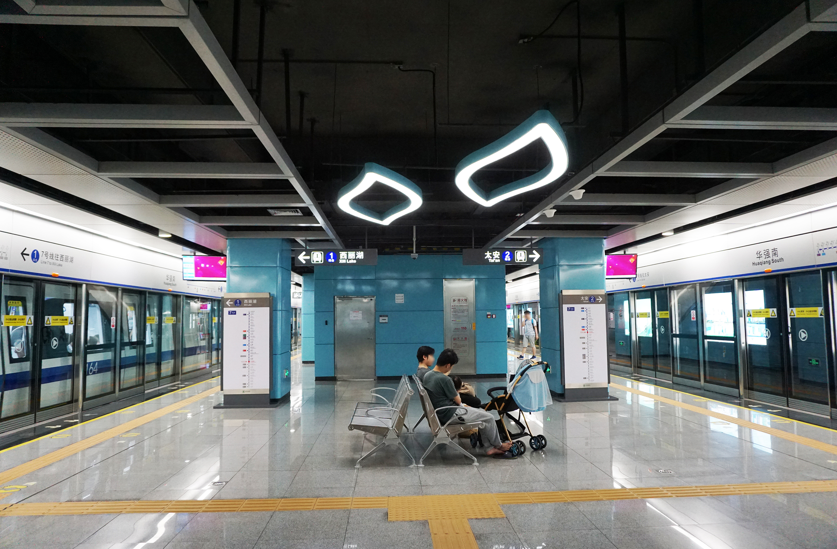 Huaqiang South Station in Futian District, Shenzhen.